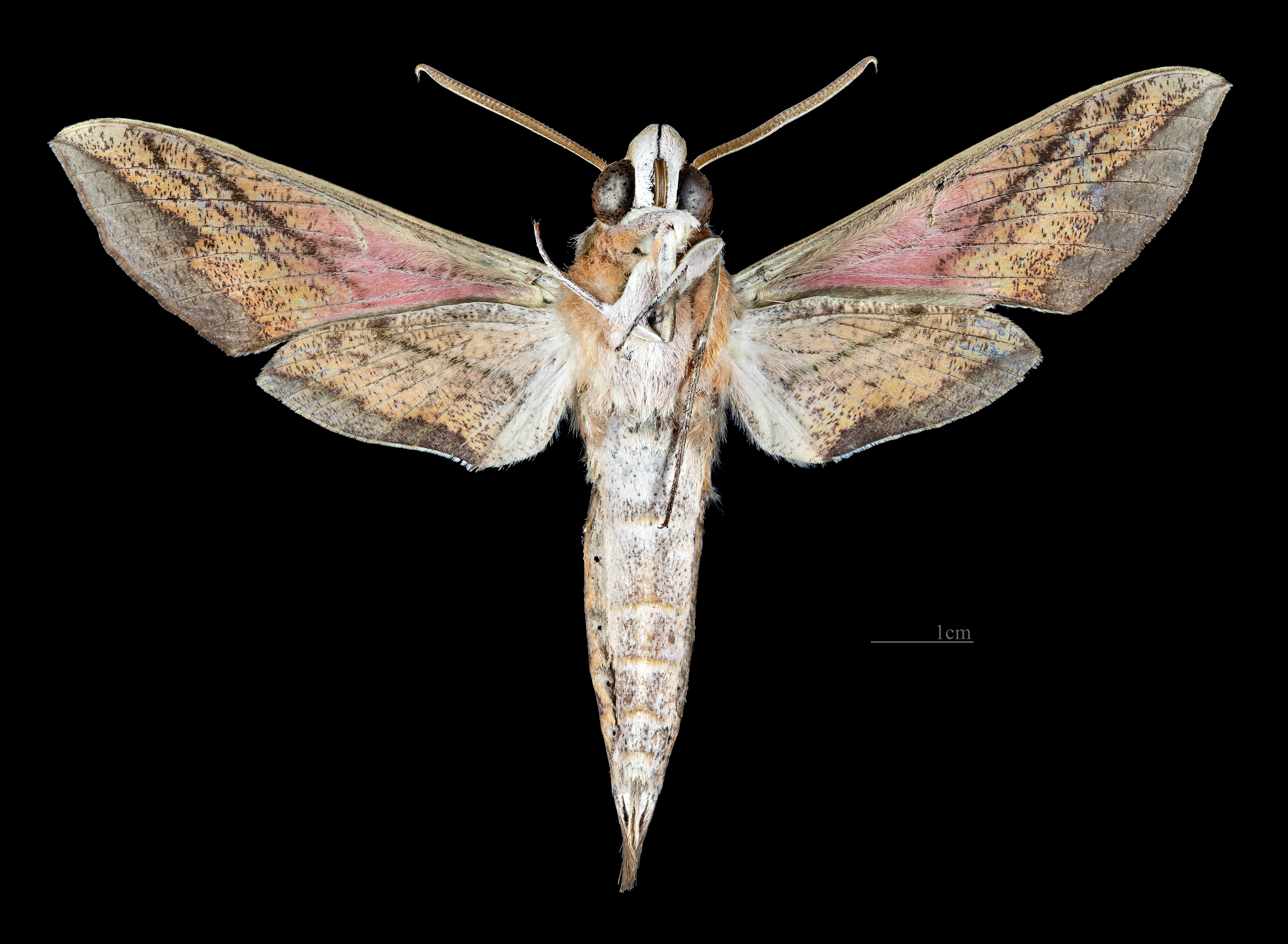 Hippotion boerhaviae - △ Ventral side Collection of the Mathematician Laurent Schwartz